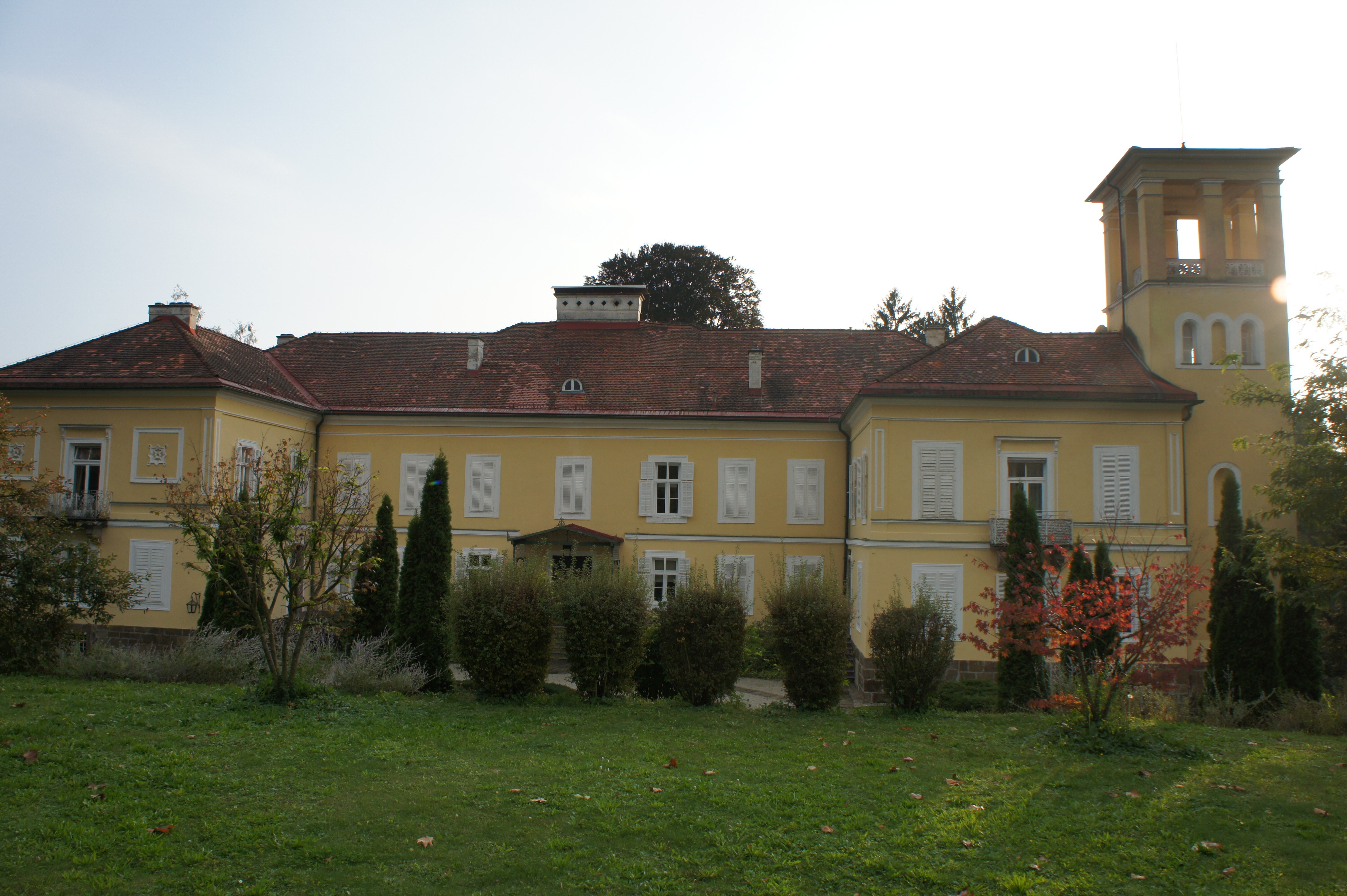 Villa Wickenburg, Bad Gleichenberg, Austria